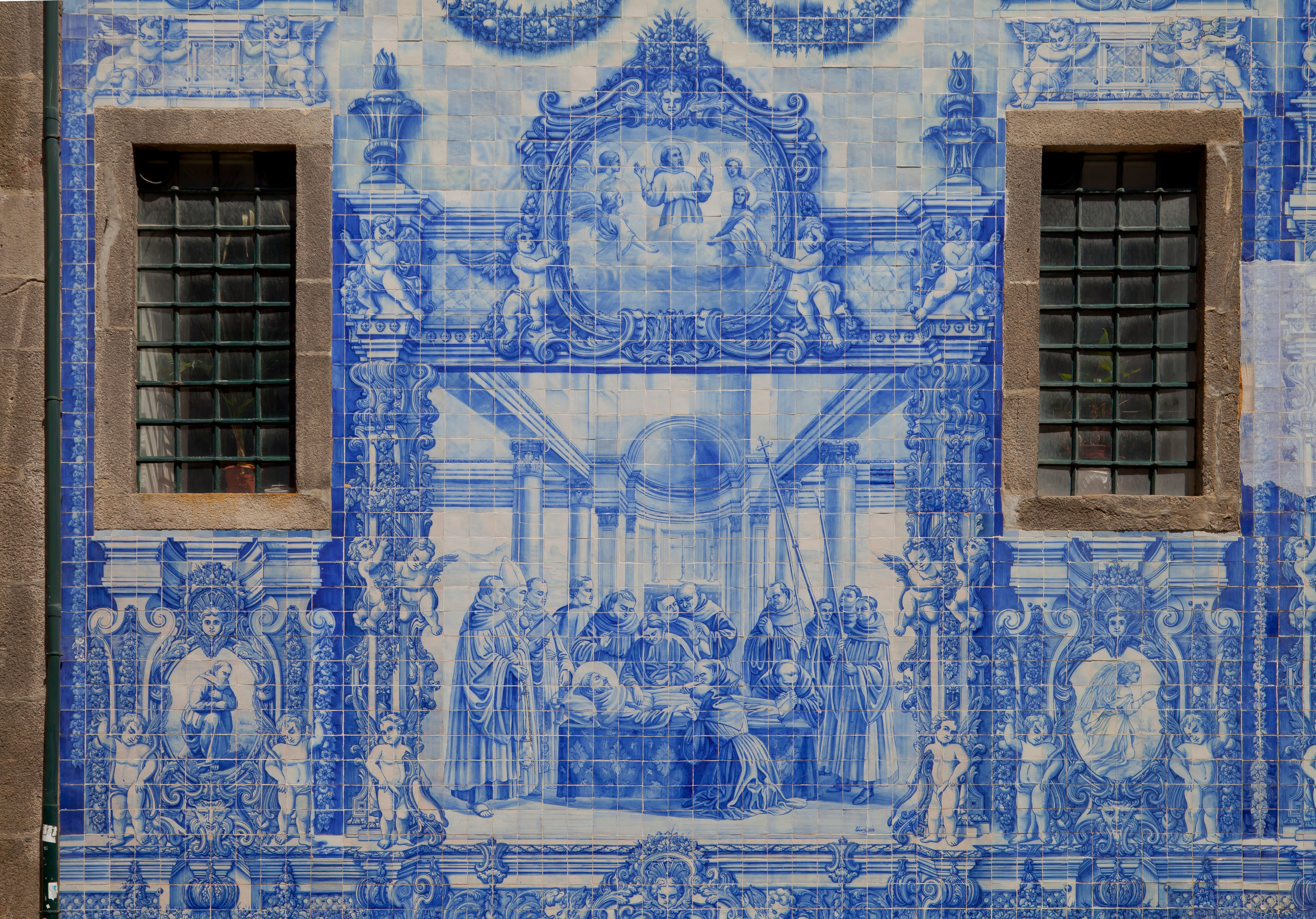 Chapel of the Souls, Porto, Portugal